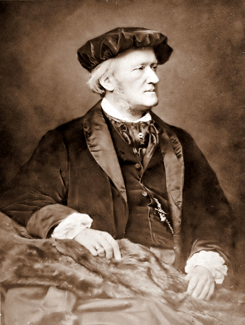 Albumen silver print of Richard Wagner